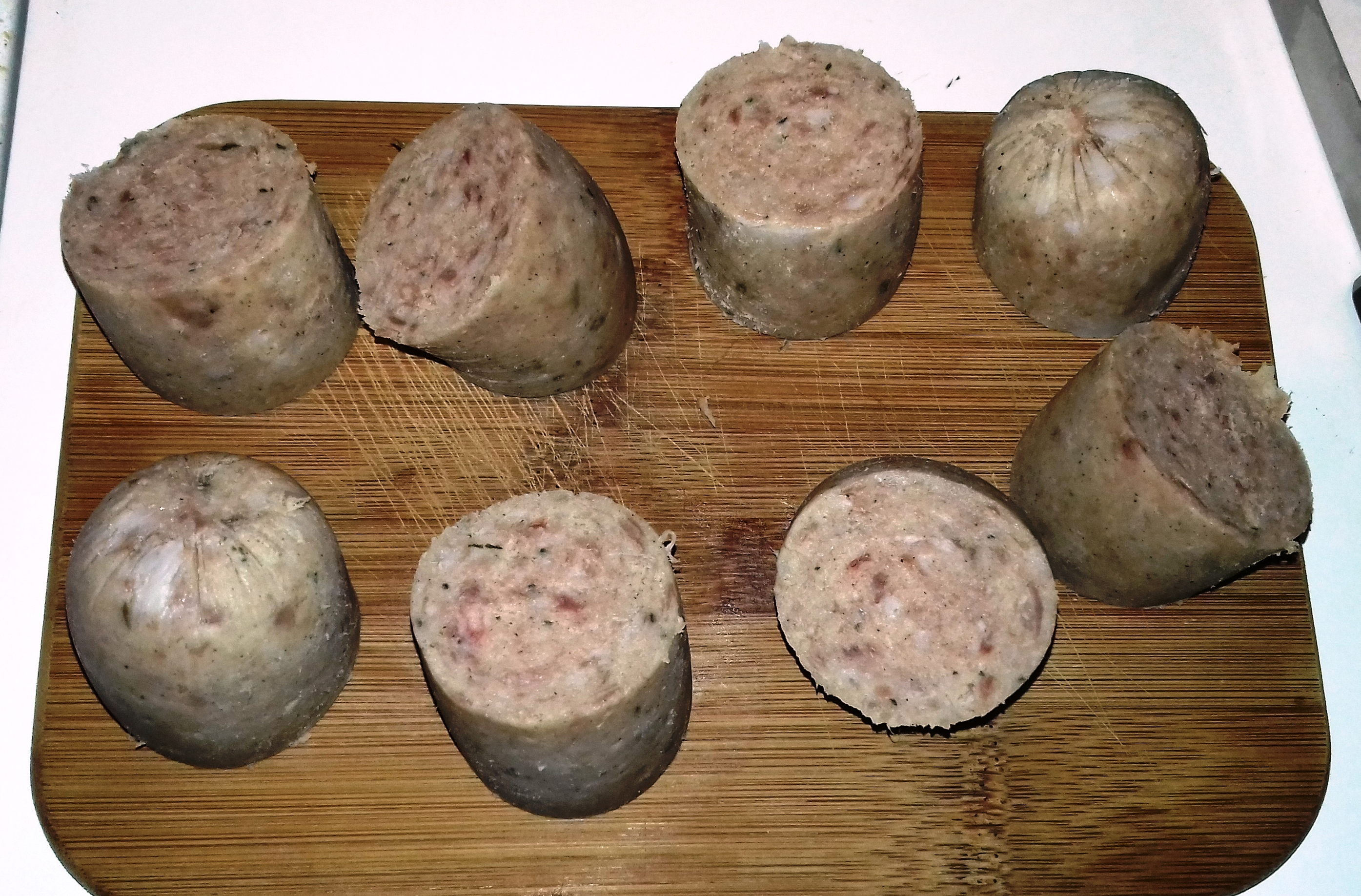 An uncooked hogs pudding, sliced ready to cook. A traditional Cornish food.